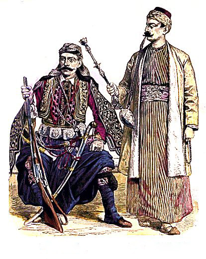 Prince from Lebanon and Muslim from Damascus, late nineteenth century.